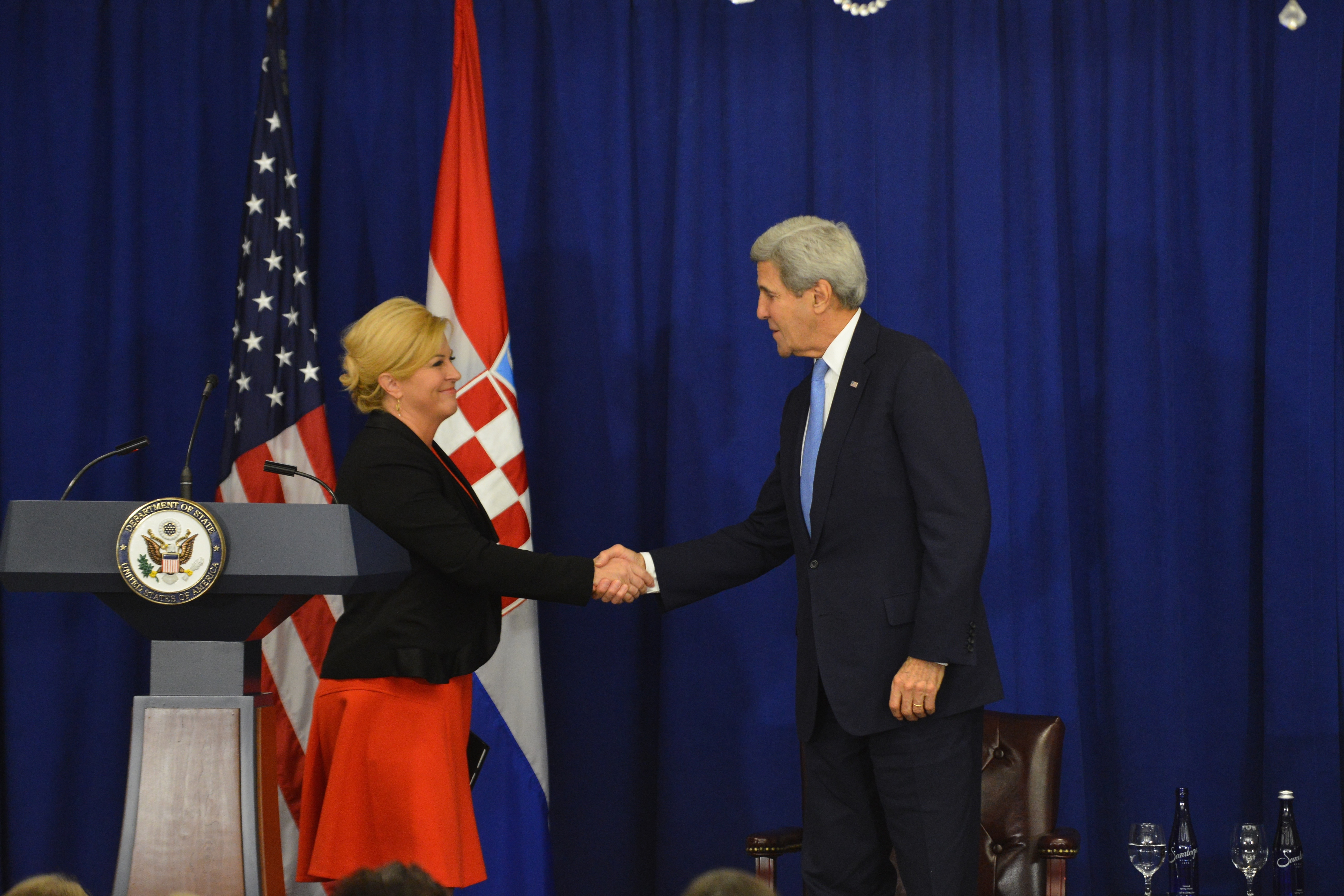 U.S. Secretary of State John Kerry shakes hands with President of the Republic of Croatia, Kolinda Grabar-Kitarović at the Equal Futures Partnership meeting, at the Palace Hotel, in New York City, New York on September 22, 2016. [State Department Photo/Public Domain]